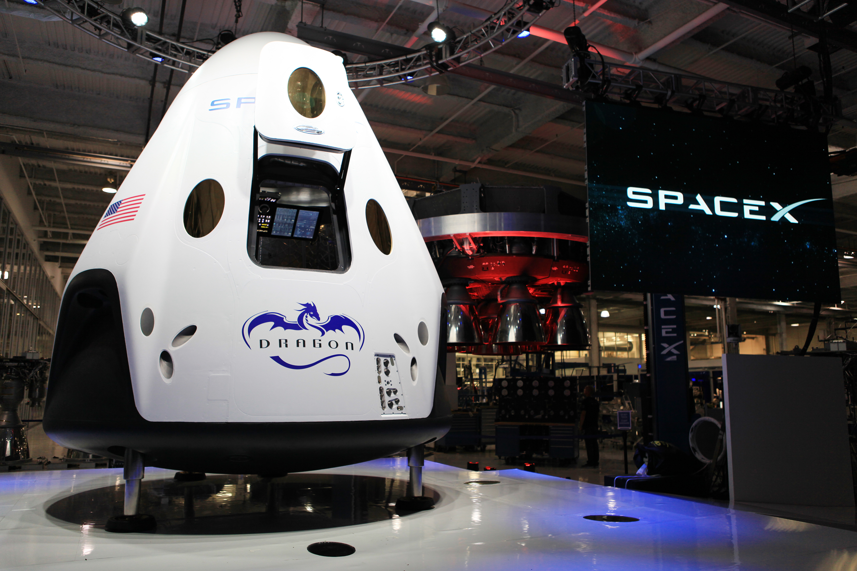 HAWTHORNE, Calif. - The Dragon V2 stands on a stage inside SpaceX headquarters in Hawthorne, Calif., prior to its unveiling. The spacecraft is designed to carry people into Earth's orbit and was developed in partnership with NASA's Commercial Crew Program under the Commercial Crew Integrated Capability agreement. SpaceX is one of NASA's commercial partners working to develop a new generation of U.S. spacecraft and rockets capable of transporting humans to and from Earth's orbit from American soil. Ultimately, NASA intends to use such commercial systems to fly U.S. astronauts to and from the International Space Station.